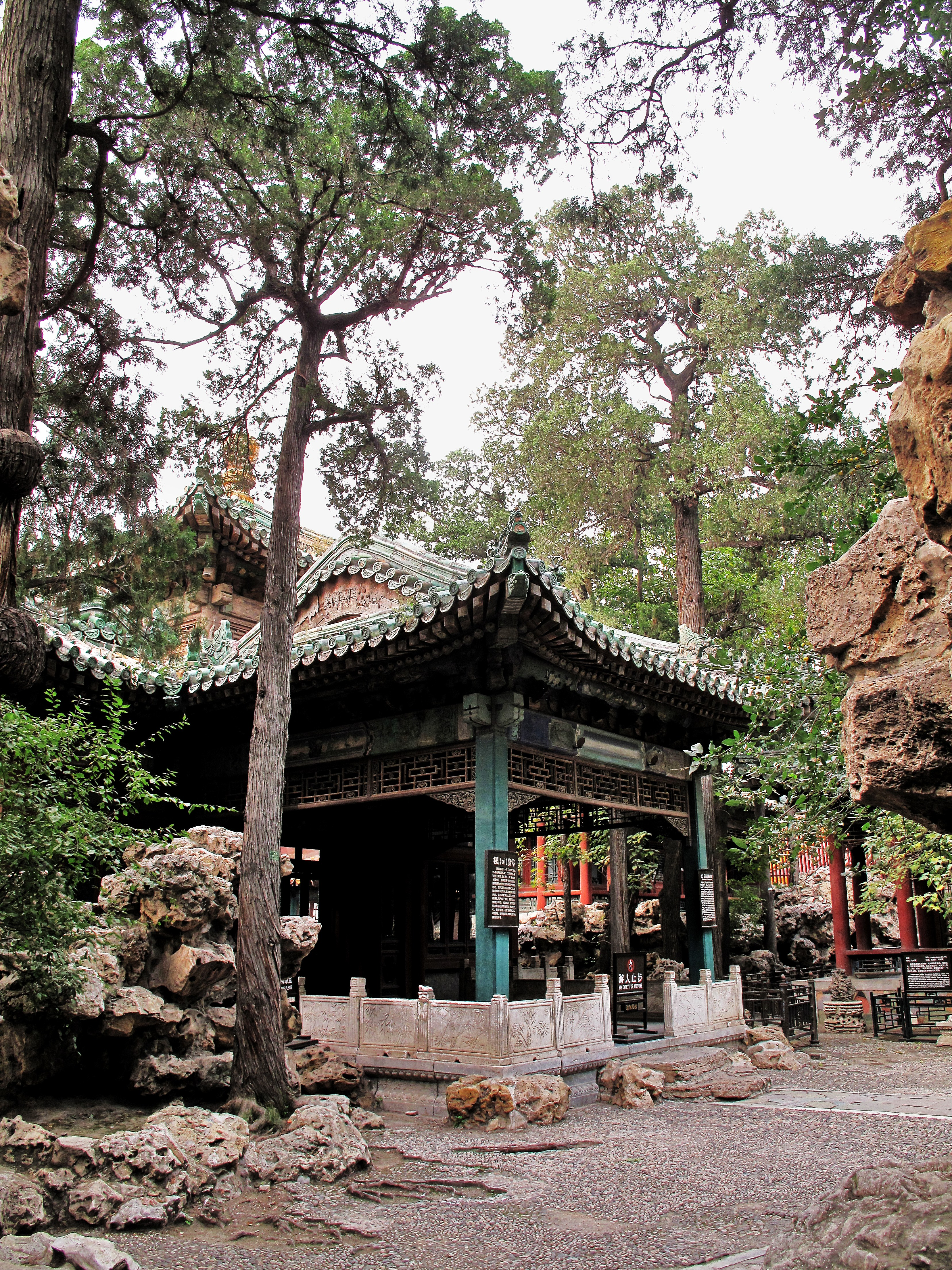 The Emperor's Garden